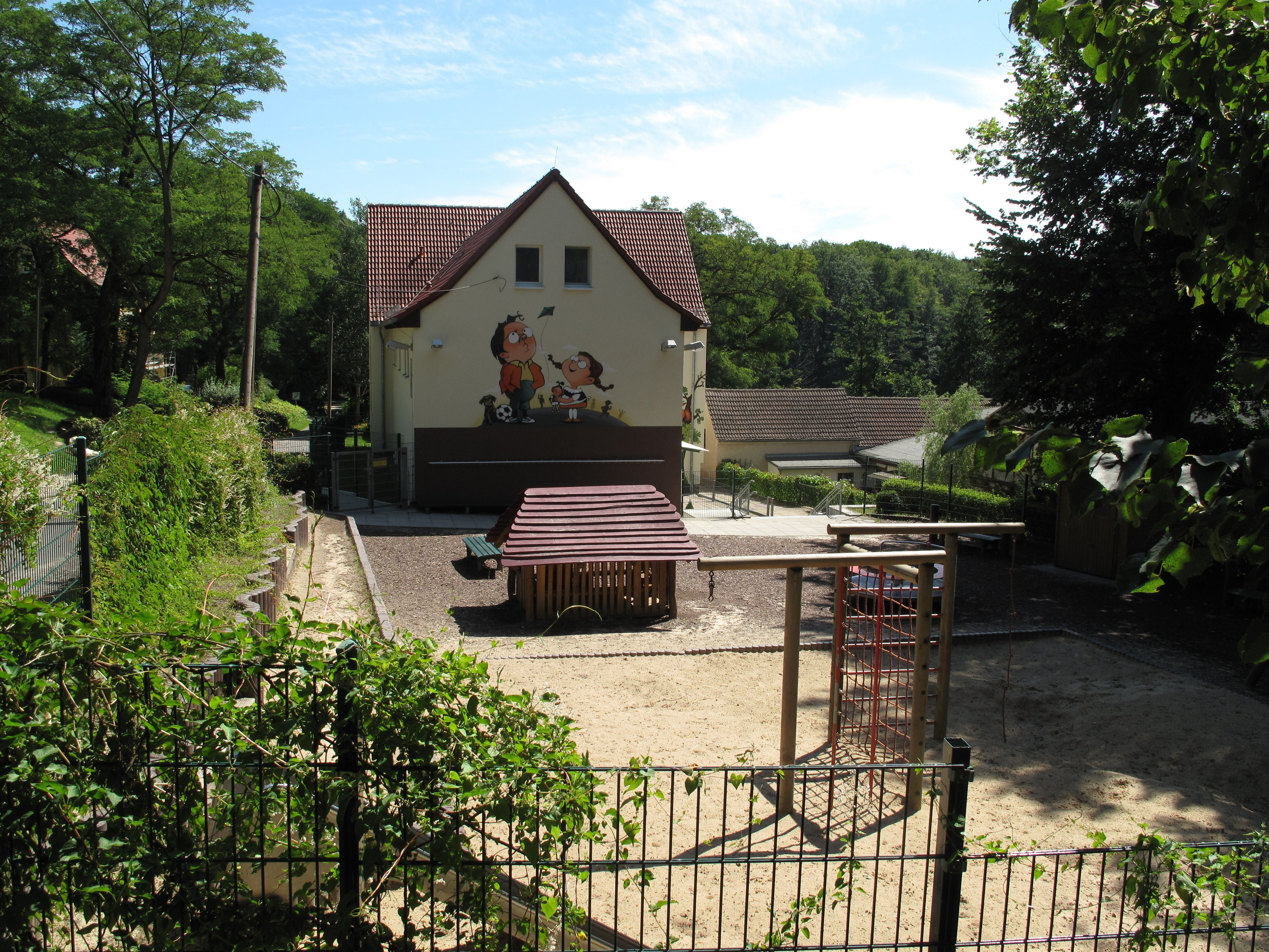 „Schule am Tornowsee“ in Tornow. Tornow is a hamlet of Pritzhagen, a village of the municipality Oberbarnim in the District Märkisch-Oderland, Brandenburg, Germany. The former demesme with a manor house from 1912 is today separated into a special education school („Schule am Tornowsee“) and a hotel with integrated work/job- and rehabilitation-training for people with mental disorders („Haus Tornow am See“). Tornow is situated at the northern bank of the Große Tornowsee (lake).